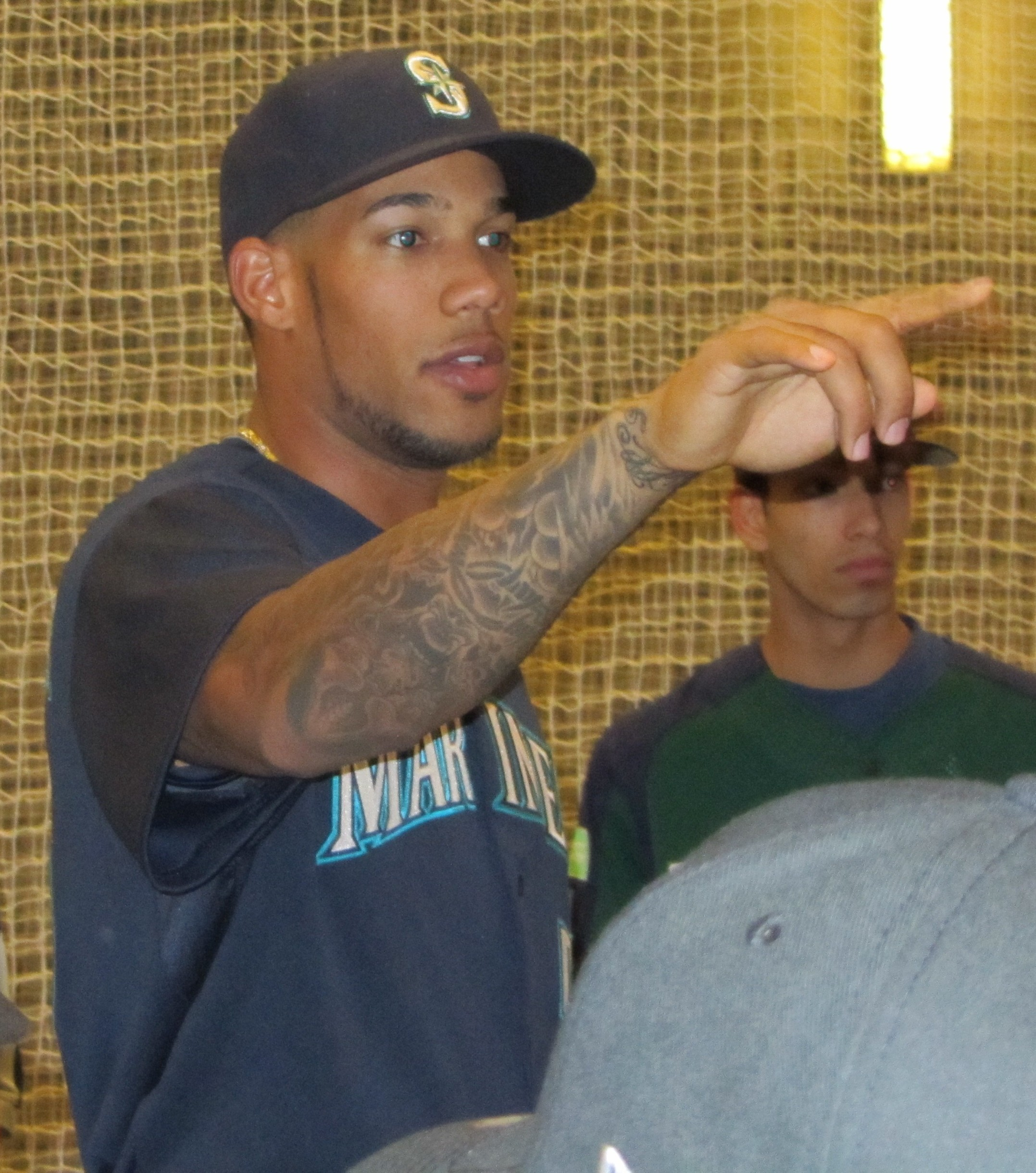 Baseball player Gregory Halman during Major League youth clinic in Rotterdam, The Netherlands